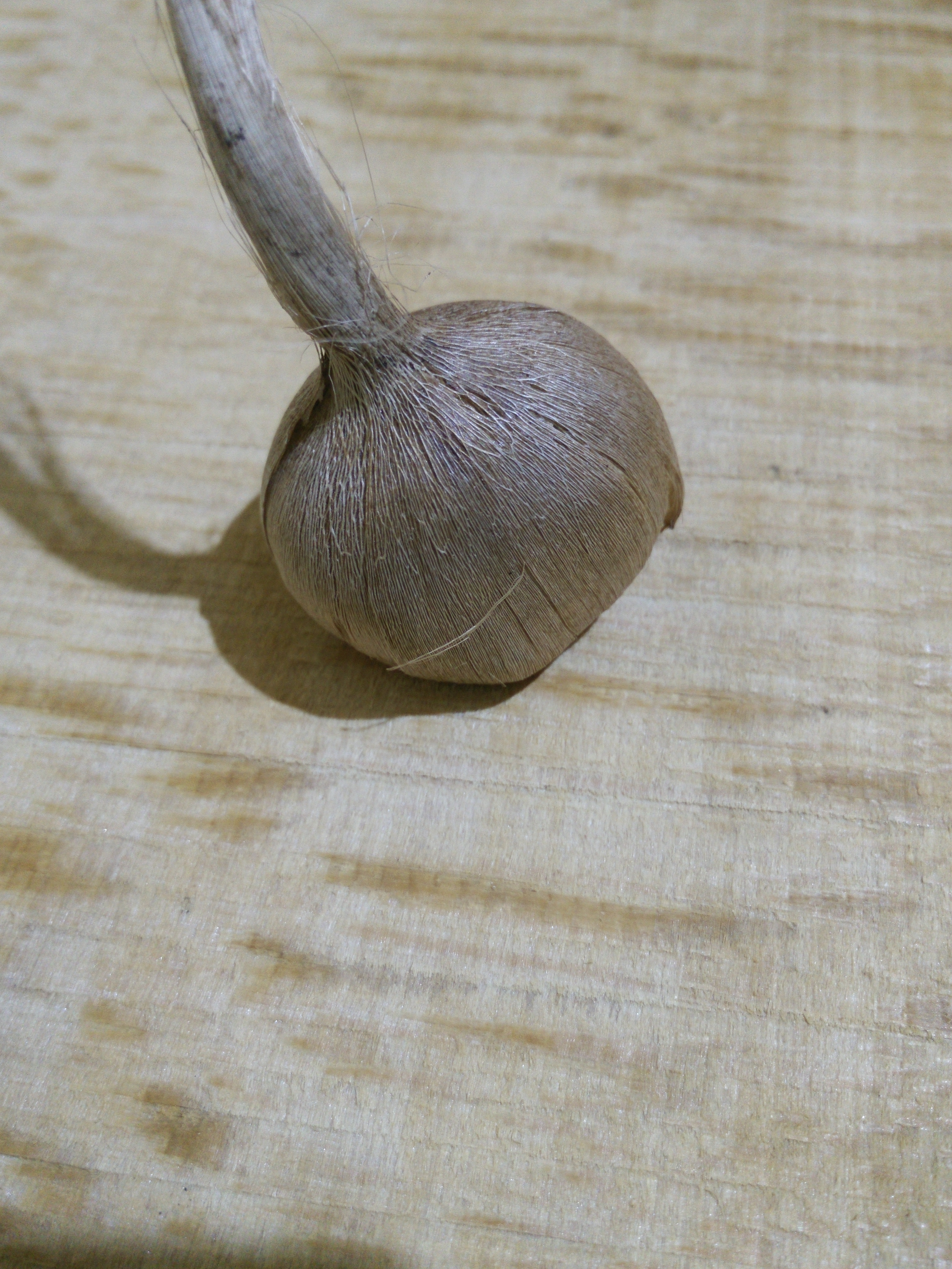 Close view of a saffron seed.